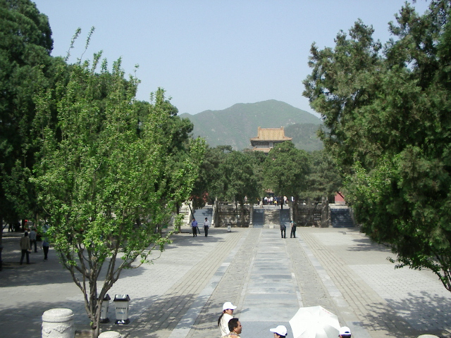 The Dingling tomb - a part of the Ming Dynasty Tombs